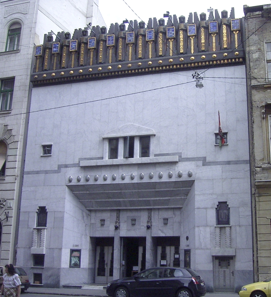 New Theater (Új színház), earlier: Parisiana, Paulay Ede utca 35, 1061 Budapest (Béla Lajta, 1909)